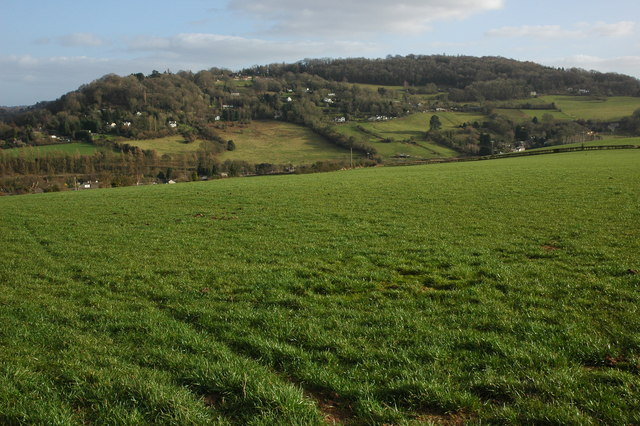 Great Doward viewed from above Whitchurch, Little Doward is just out of picture to the right.The wooded hill in the background (Great Doward)is to the west of Symonds Yat, here it is viewed from above Whitchurch.